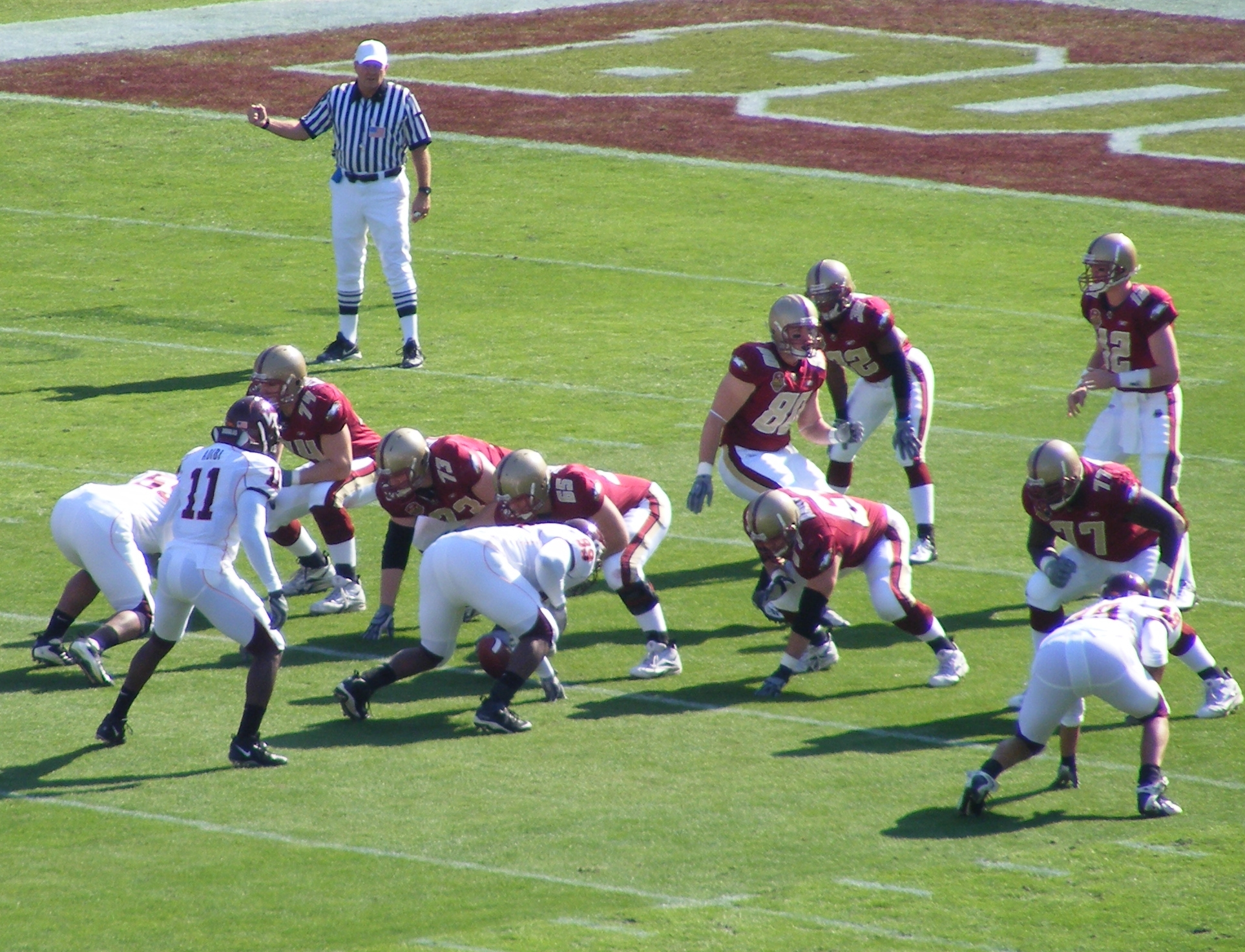 Opening play of the 2007 ACC Championship Game (en) between Boston College and the Virginia Tech Hokies football team